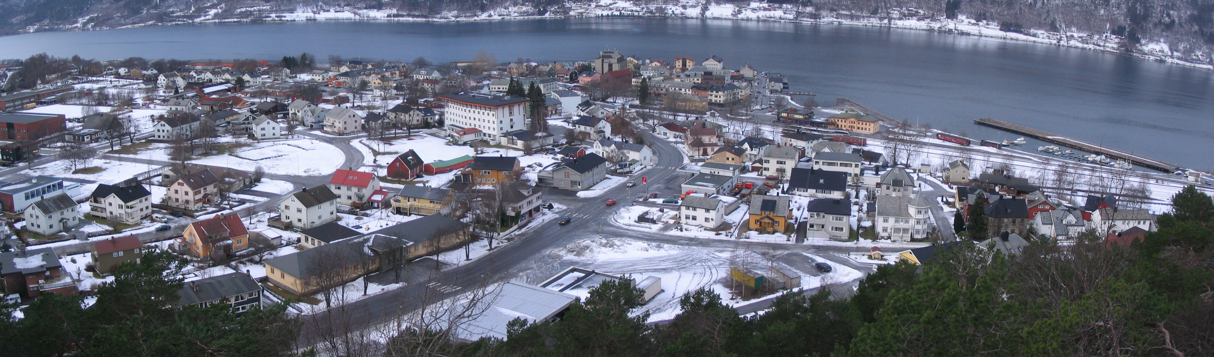 Panorama picture of Aandalsnes. Photo taken from Nebba.